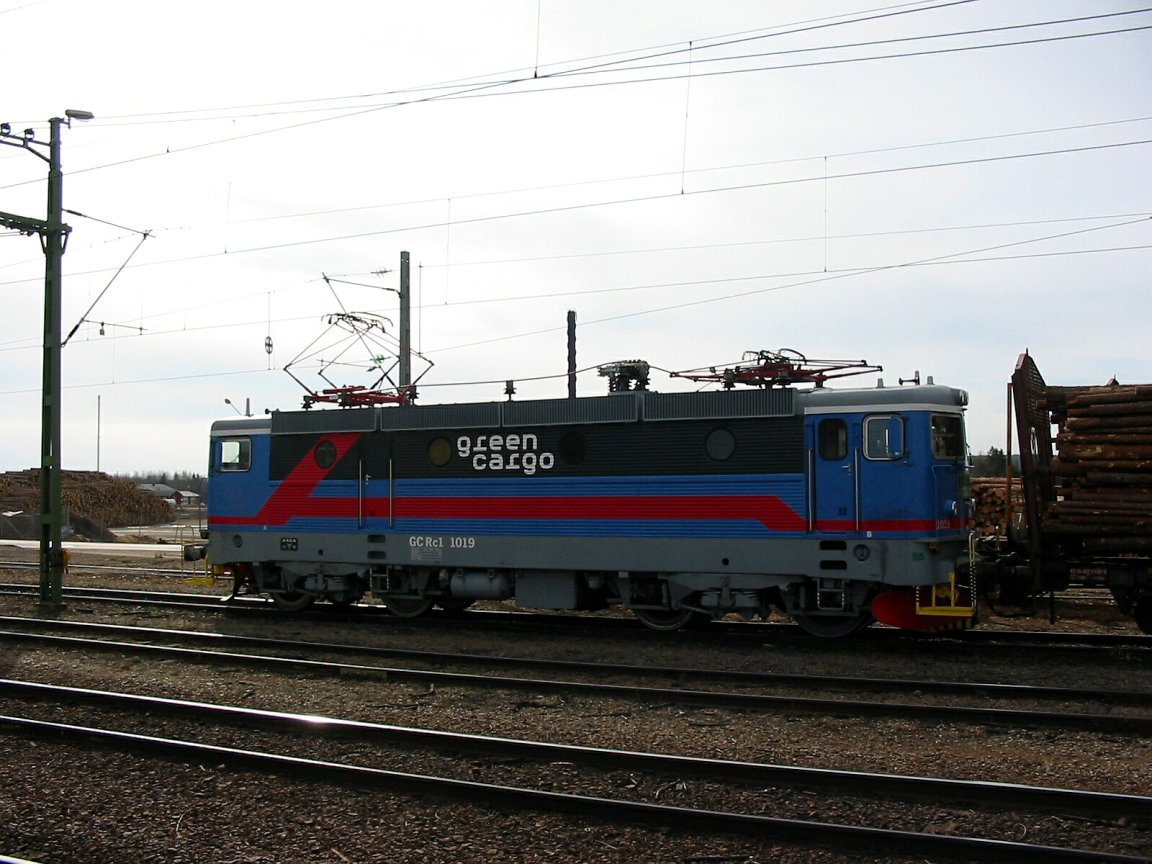 Green Cargo Rc1 1019 in a log train.